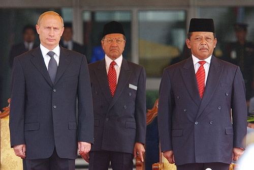 KUALA LUMPUR. The official welcoming ceremony for the Russian President. President Putin with Malaysian Prime Minister Mahathir Mohamad and King Tuanku Syed Sirajuddin, right.